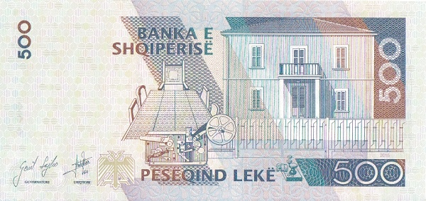 500 Lekë of Albania in 2015 Reverse